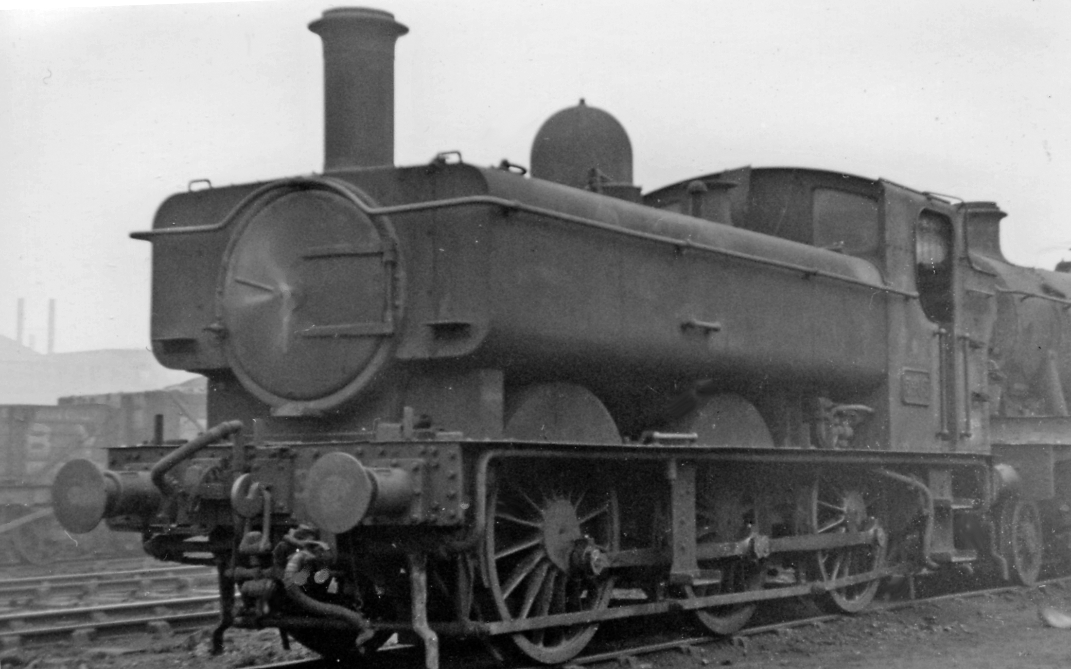 Auto-fitted 0-6-0 Pannier tank at Old Oak Common Locomotive Depot. The first Collett auto-fitted 0-6-0 pannier tanks with larger wheels and built for passenger work were the '5400's, which worked mainly on branches in the London Division. No. 5405 (built 12/31, withdrawn 10/57) was used on the Westbourne Park - Greenford or the Ealing Broadway - Greenford services. [One of my earliest photographs, taken in mid-winter].